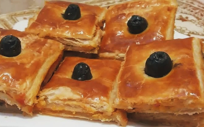 Algerian "Coca"